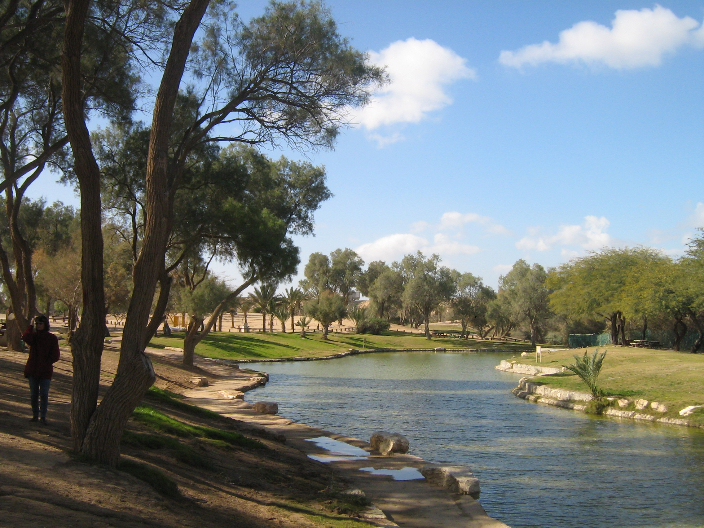 Geography of Israel